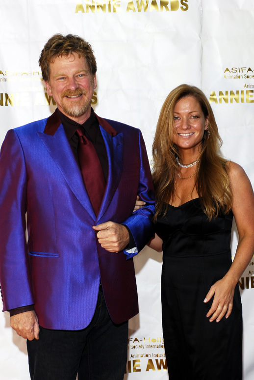 Roger Allers and Jill Culton, directors of "Open Season", at the 2006 Annie Awards red carpet at the Alex Theatre in Glendale, California.